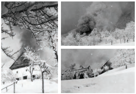 Germans burning Drazgose after the Battle of Drazgose, January 1941